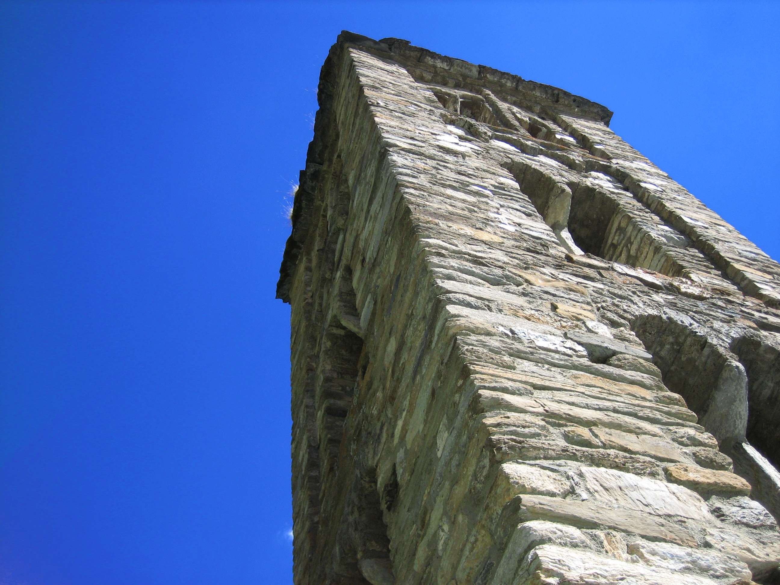 Tower of the Saint Clement's Church of Pal, La Massana, Andorra